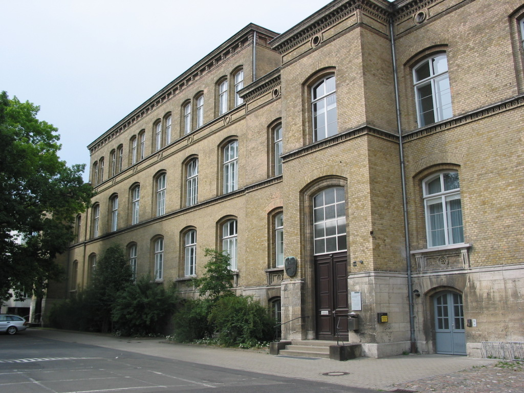 Main entry to the administration court in Braunschweig